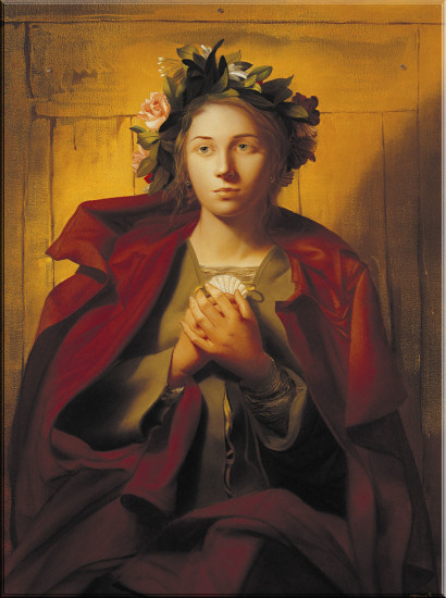 Santa Bona - Oil on canvas 75x90, gift to Archbishop of Pisa, located in Palazzo Arcivescovile in Pisa